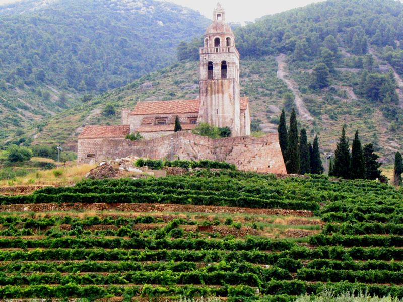 Church in Komiža, island of Vis, Croatia